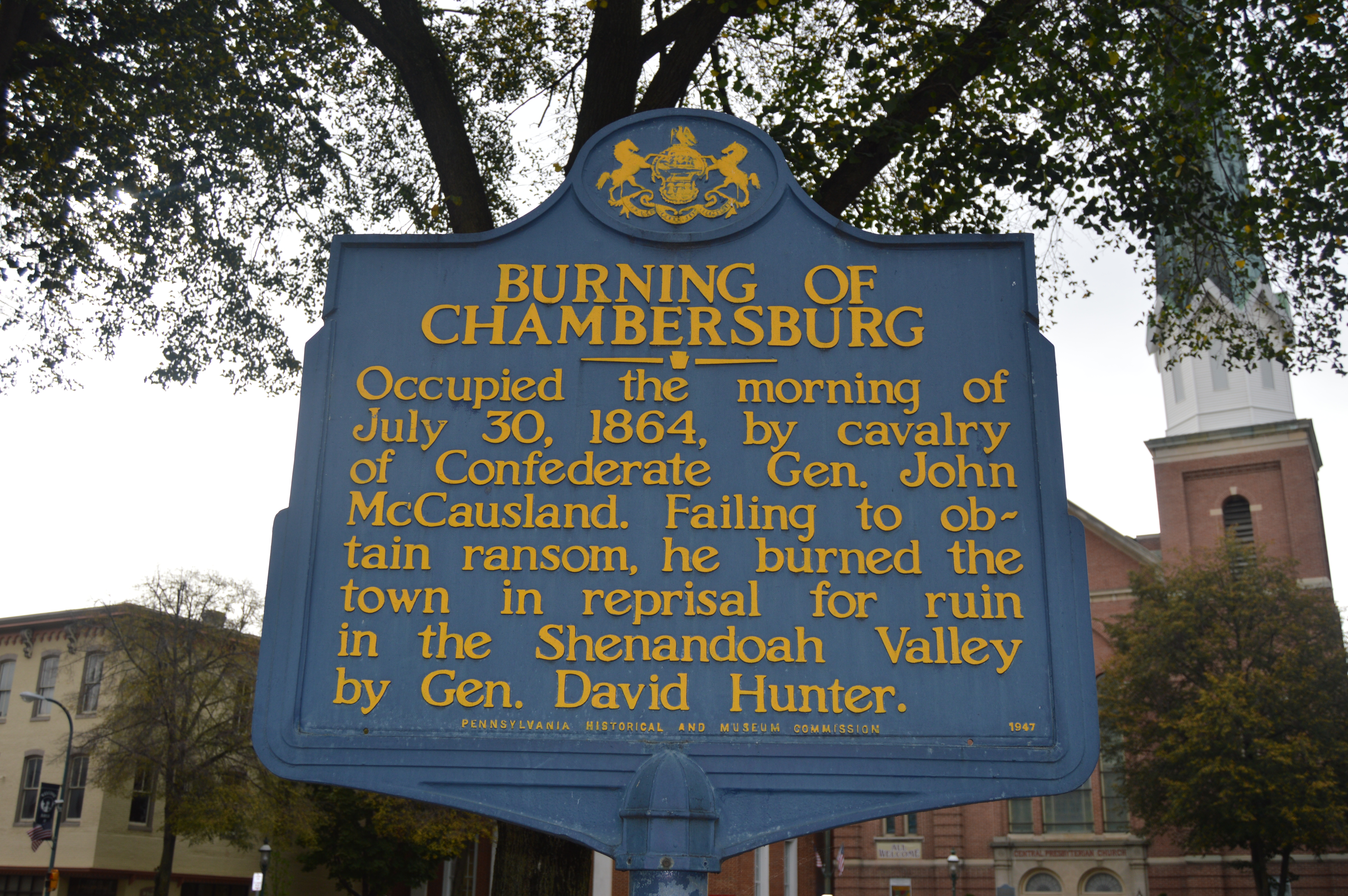 Historical marker on the southeastern quadrant of the public square in Chambersburg, Pennsylvania, United States.